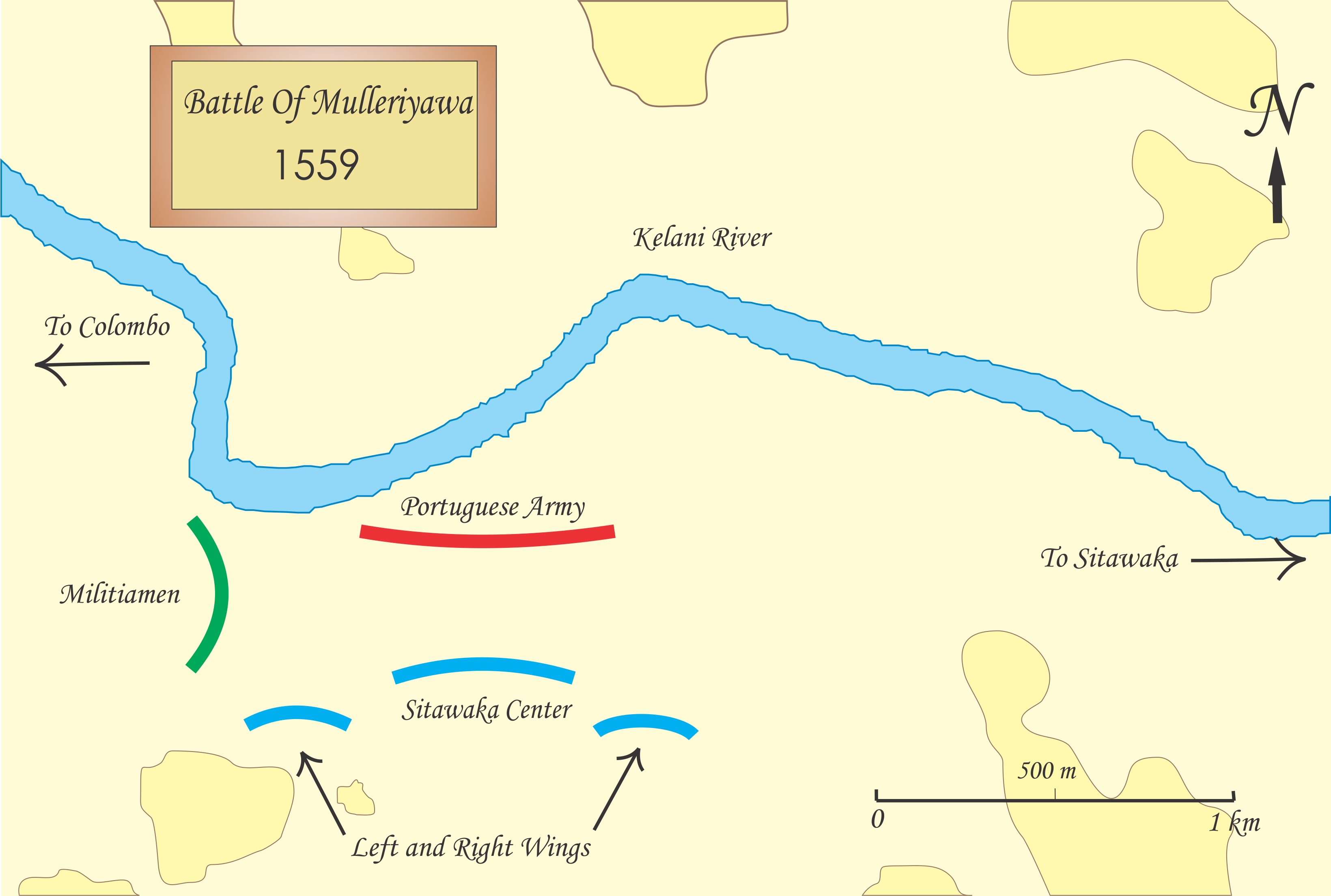 Battle of Mulleriyawa troop disposition at the proposed site of battle. Map based on sketch map and details in "C. Gaston Perera. Kandy fights the Portuguese – A military history of Kandyan resistance. Vijithayapa Publications:Sri Lanka; June 2007.ISBN 978-955-1266-77-6"